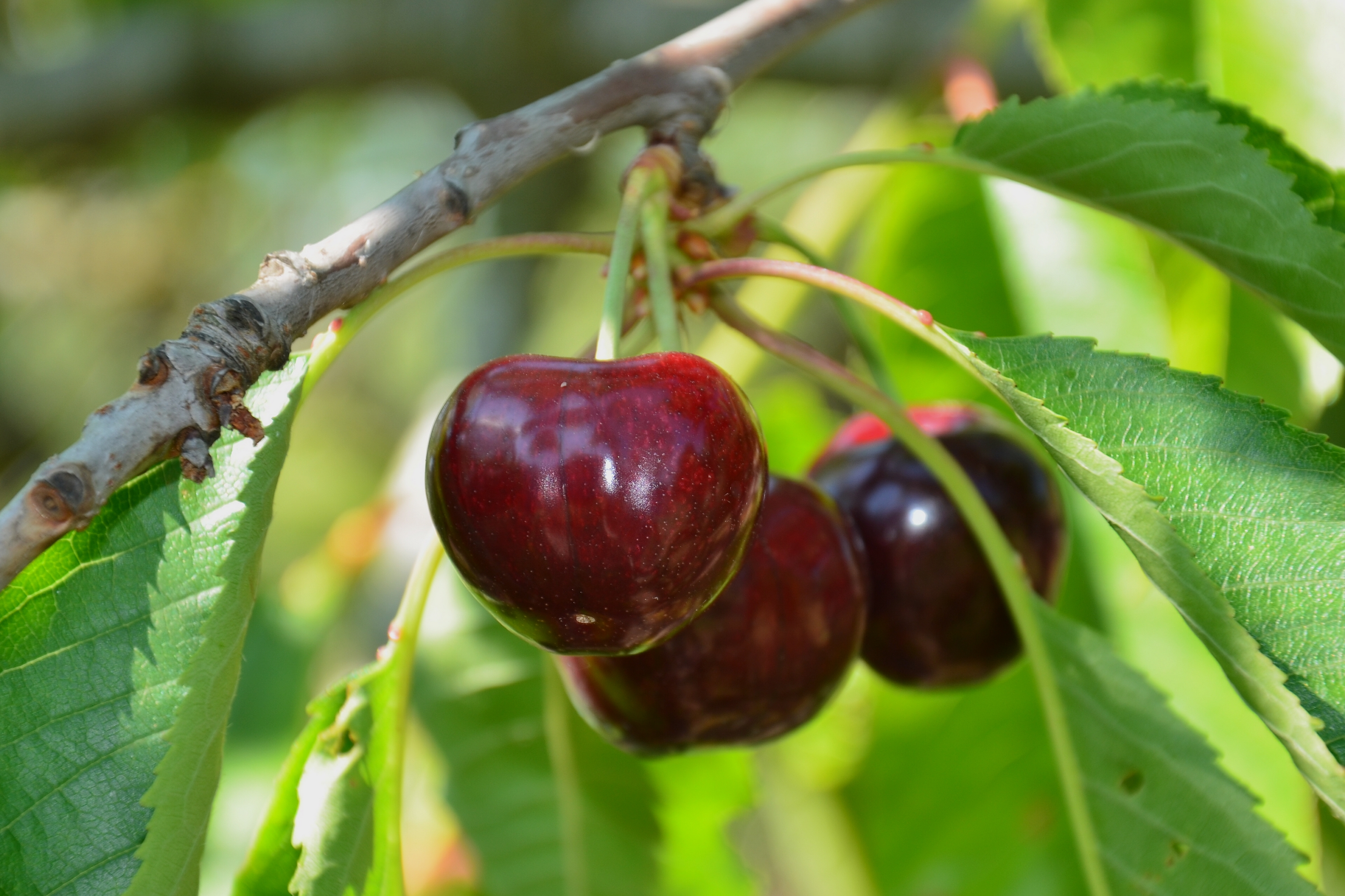 Fruits sweet cherries